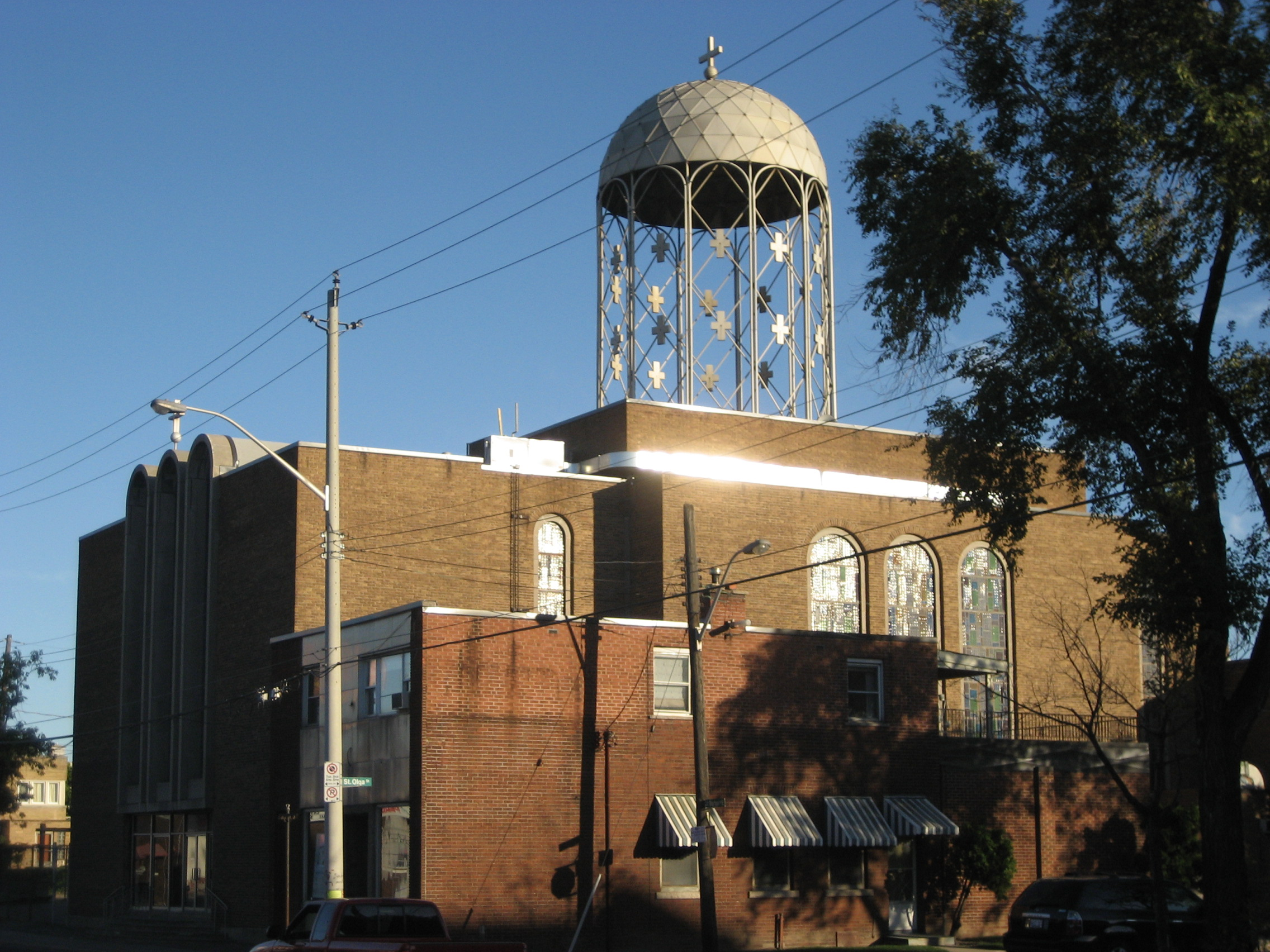 Holy Spirit Church, Barton Street East, downtown Hamilton